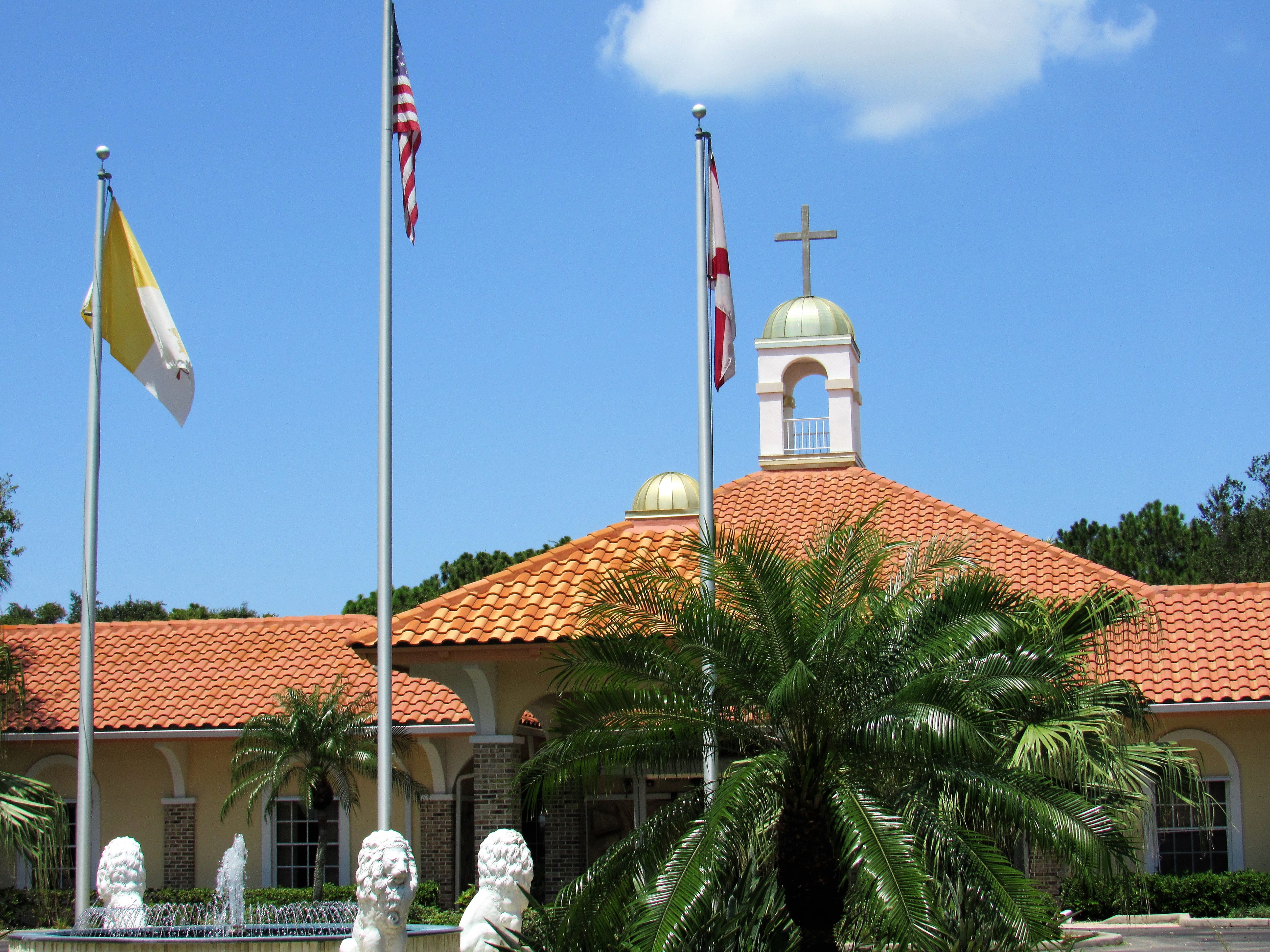 The Pastoral Center of the Catholic Diocese of Venice in Florida.